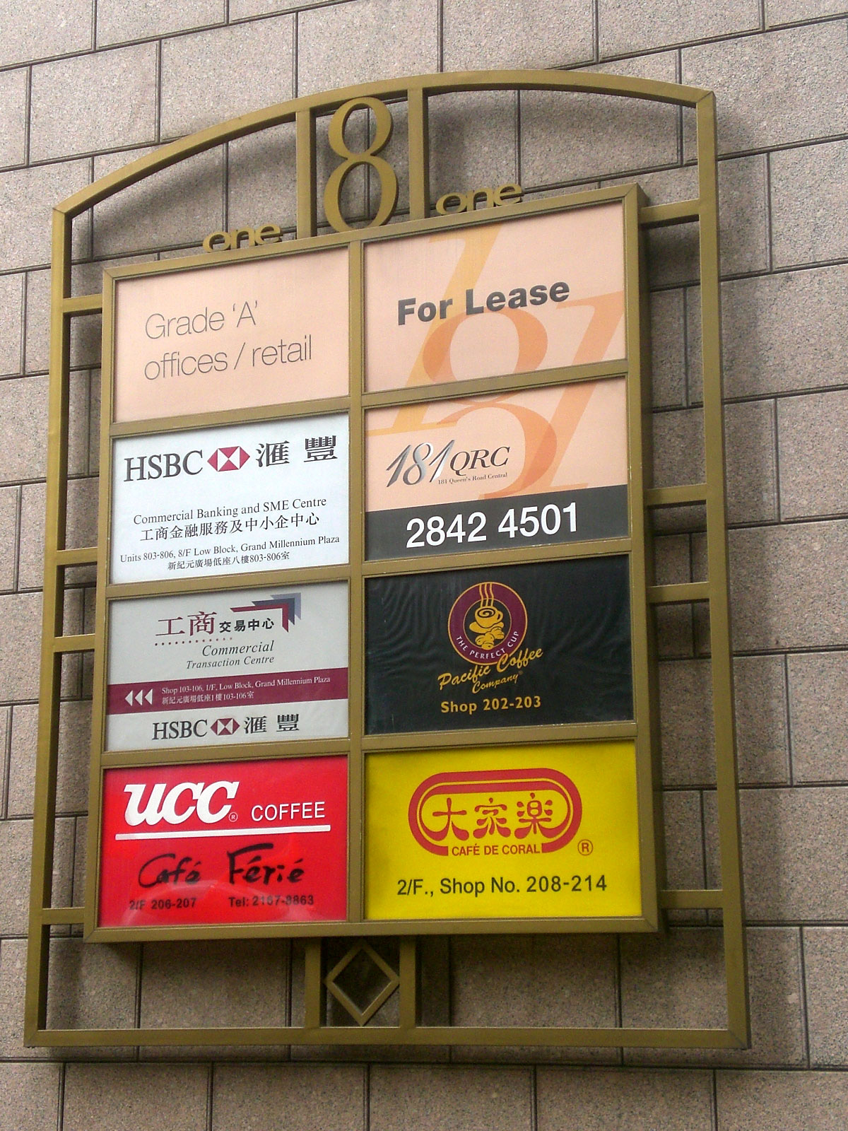 上環zh:皇后大道中新紀元廣場